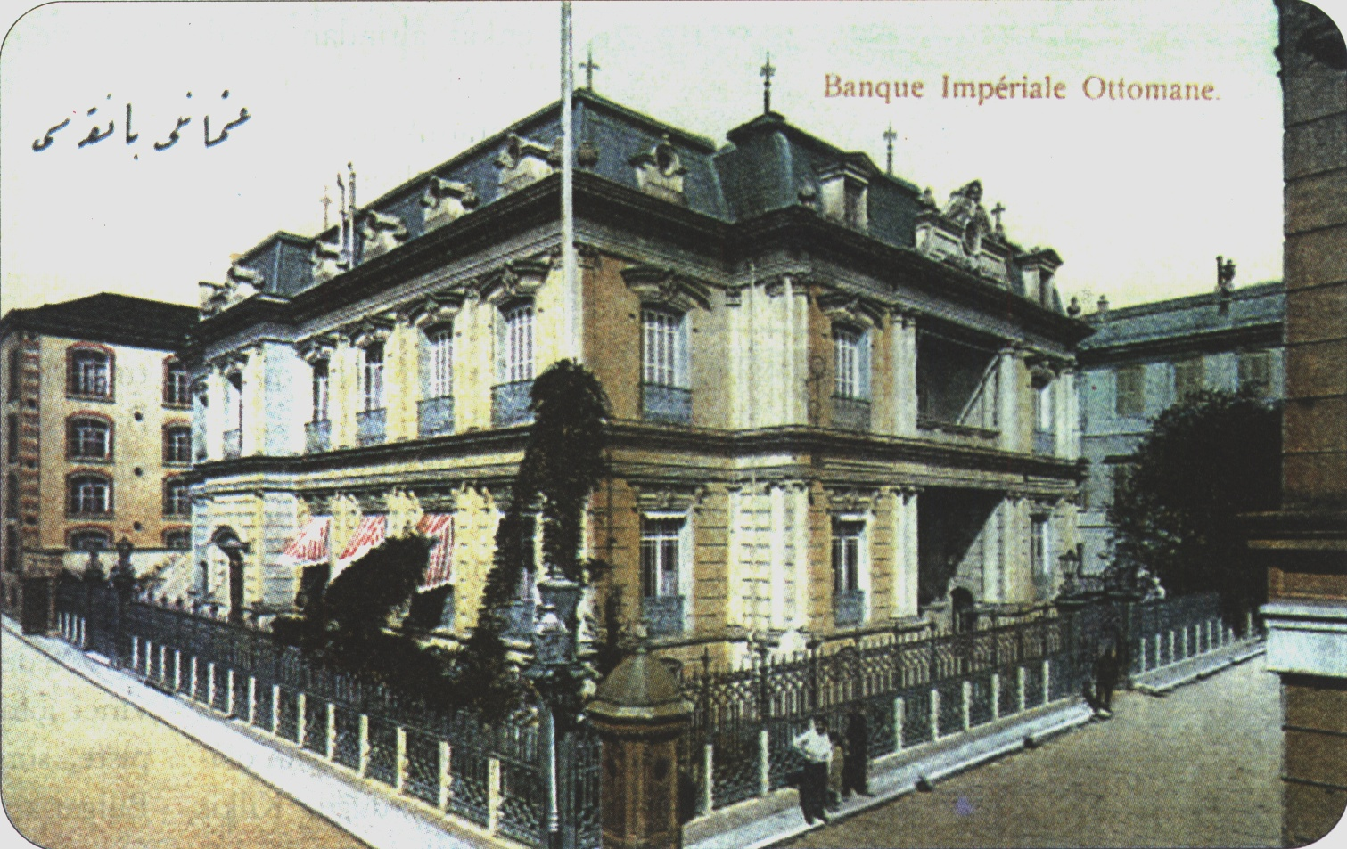 Ottoman Bank Thessaloniki Branch. SALT Research Ottoman Bank Archives Osmanlı Bankası Selanik Şubesi. SALT Araştırma Osmanlı Bankası Arşivleri